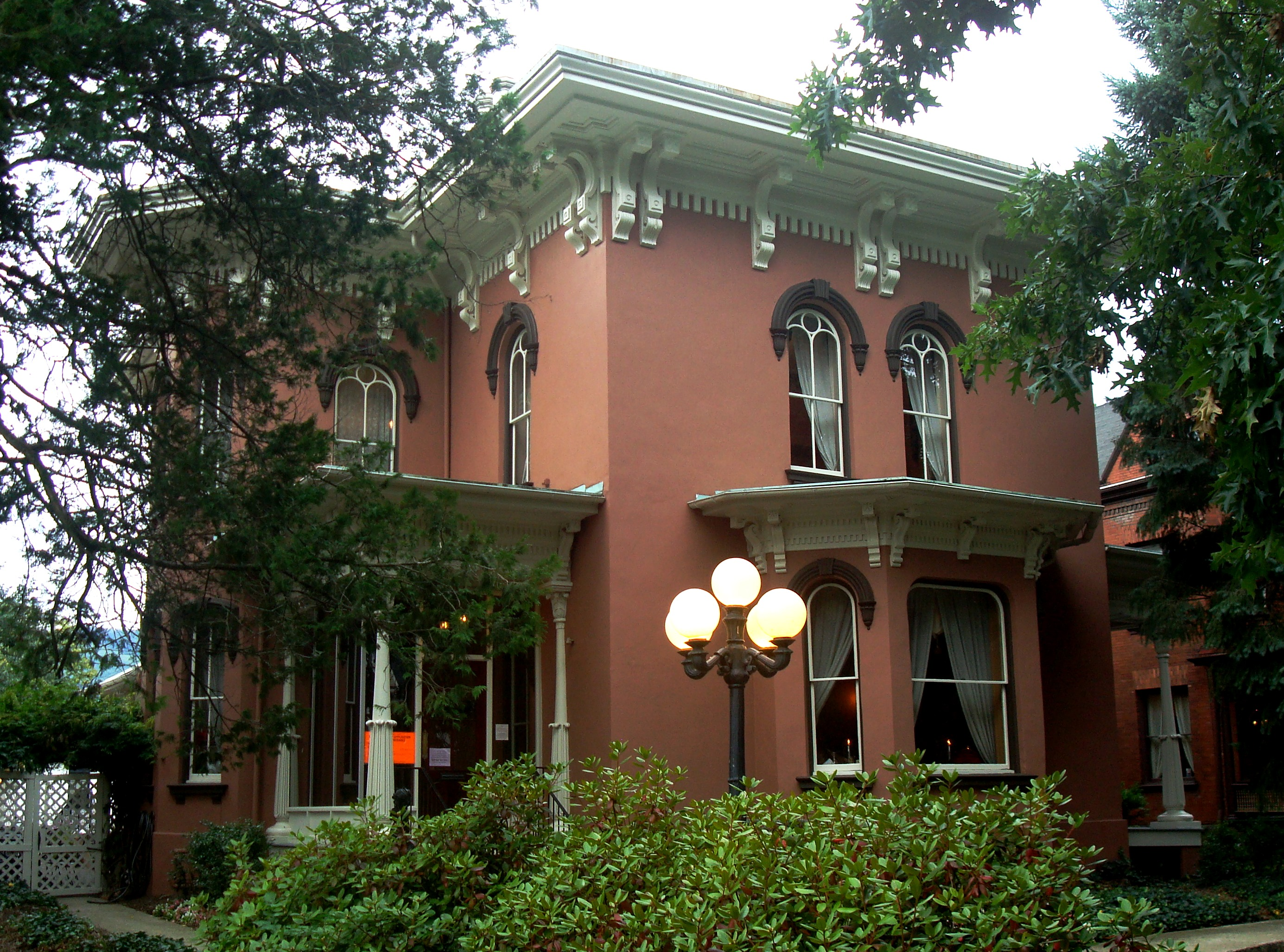 The Peter Herdic House at 407 West 4th Street between Elmira and Center Streets in the Millionaire's Row Historic District of Williamsport, Pennsylvania, was built in 1855-56 and was designed by Eber Culver in the Italian Villa style.